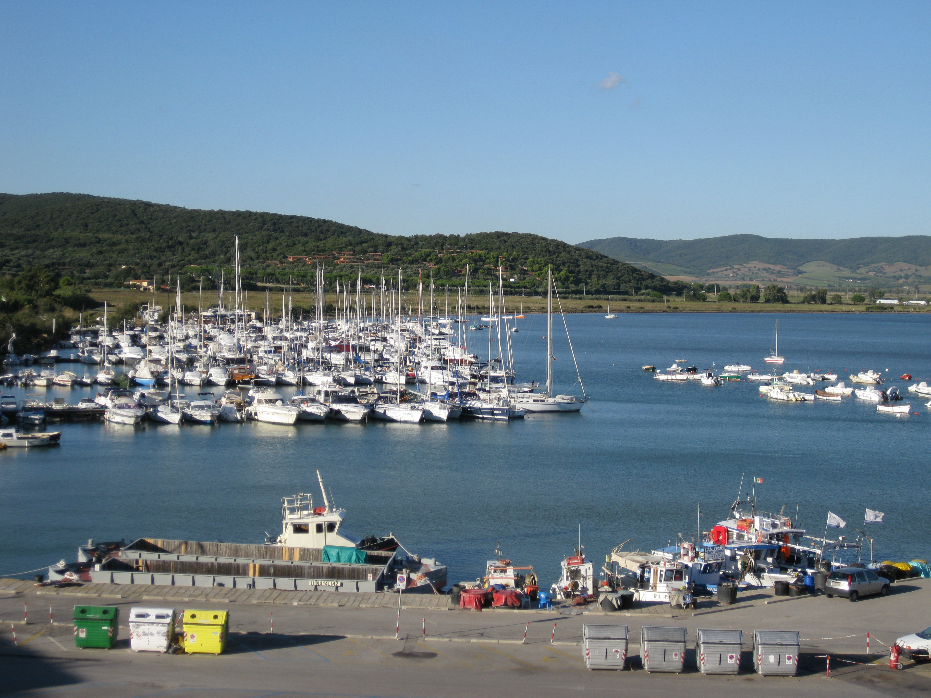 talamone ITALY